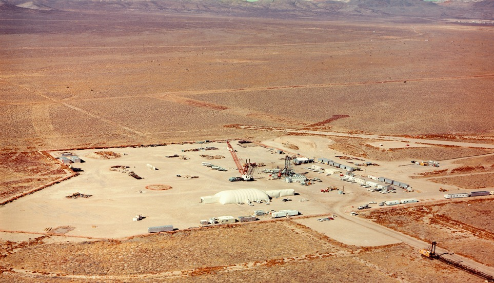 Nevada Test Site, Area 1. U1a complex. U1a is an underground experimental complex used for subcritical experiments.